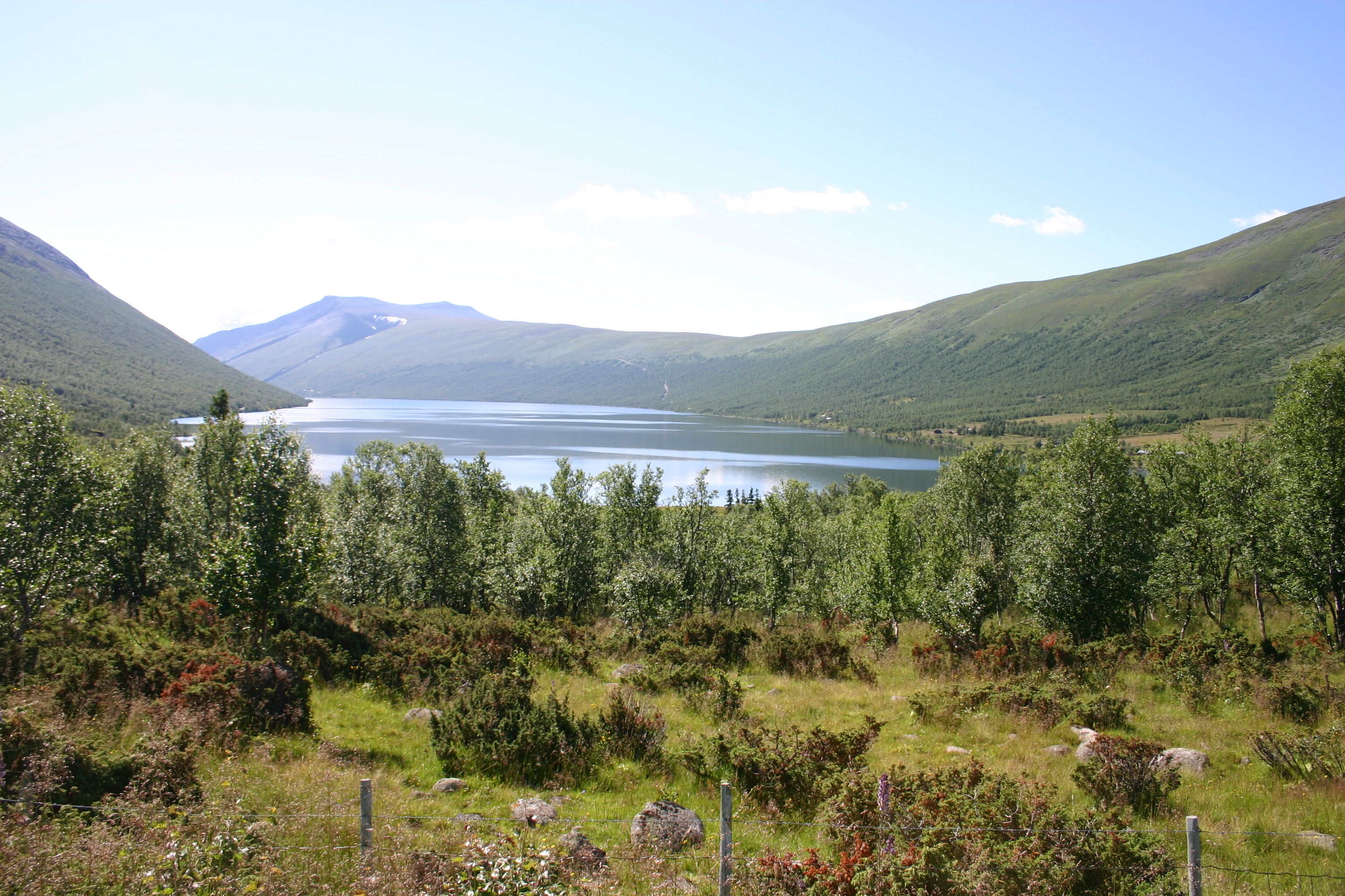 Picture of Lake Helin, Vang, Valdres, Norway. Taken from north.